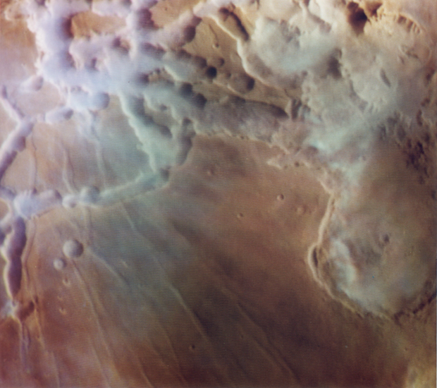 As the sun rises over Noctis Labyrinthus (the labyrinth of the night), bright clouds of water ice can be observed in and around the tributary canyons of this high plateau region of Mars. This color composite image, reconstructed through violet, green, and orange filters, vividly shows the distribution of clouds against the rust colored background of this Martian desert. The picture was reconstructed by JPL's Image Processing Laboratory using in-flight calibration data to correct the color balance. Scientists have puzzled why the clouds cling to the canyon areas and, only in certain areas, spill over onto the plateau surface. One possibility is that water which condensed during the previous afternoon in shaded eastern facing slopes of the canyon floor is vaporized as the early morning sun falls on those same slopes. The area covered is about 10,000 square kilometers (4000 square miles), centered at 9 degrees South, 95 degrees West, and the large partial crater at lower right is Oudemans. The picture was taken on Viking Orbiter 1's 40th orbit.